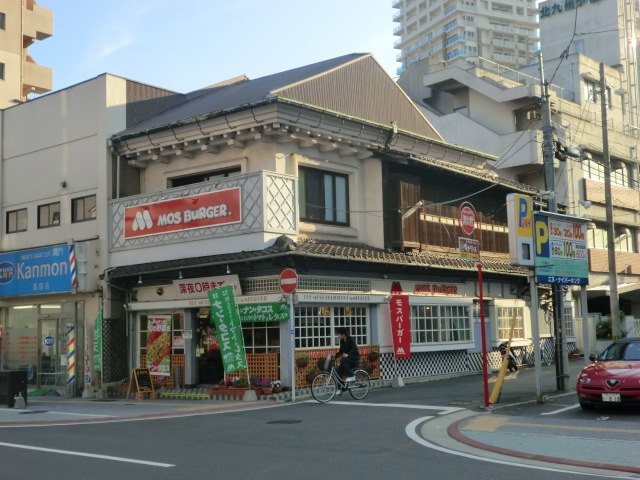 Mos burger shop utilizing Japanese traditional house in Kitakyushu,Fukuoka,Japan.